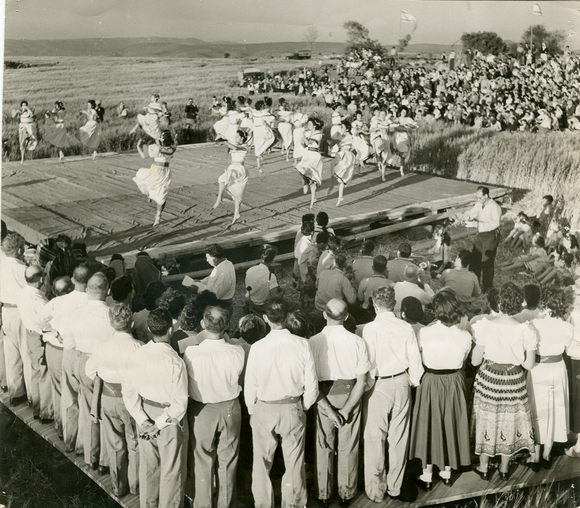 Ramat Yohanan - Omer festival, Jewish holidays